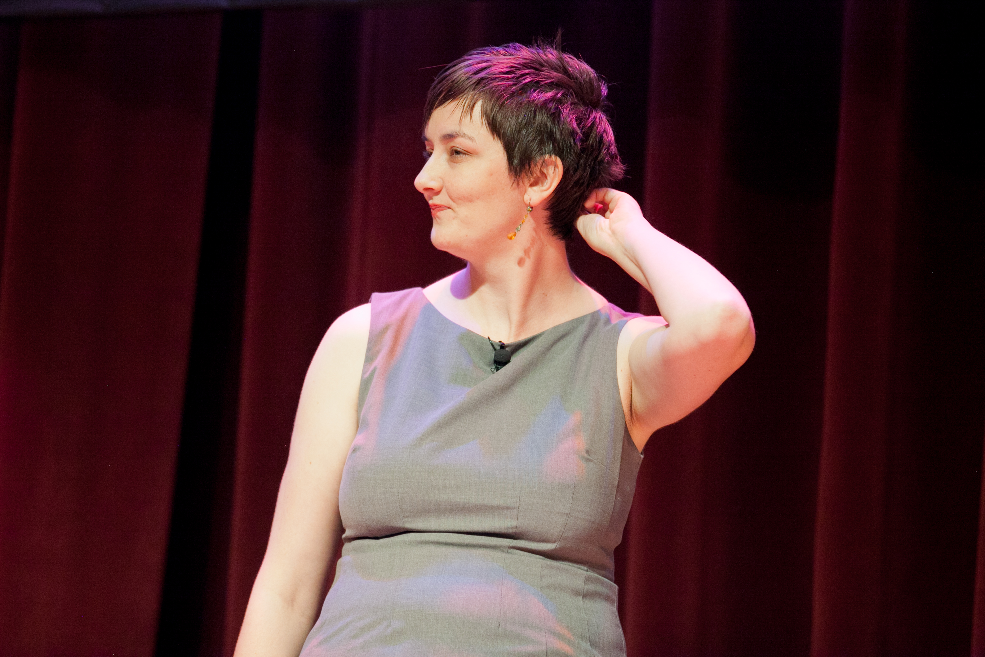 Wikimania Opening Ceremony